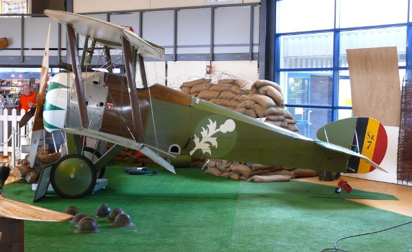 Replica of a Sopwith Camel (N2257J; built by Carl Swanson) in the Stampe en Vertongen Museum. It is painted in the colours of the 1st squadron of the Belgian Air Force.